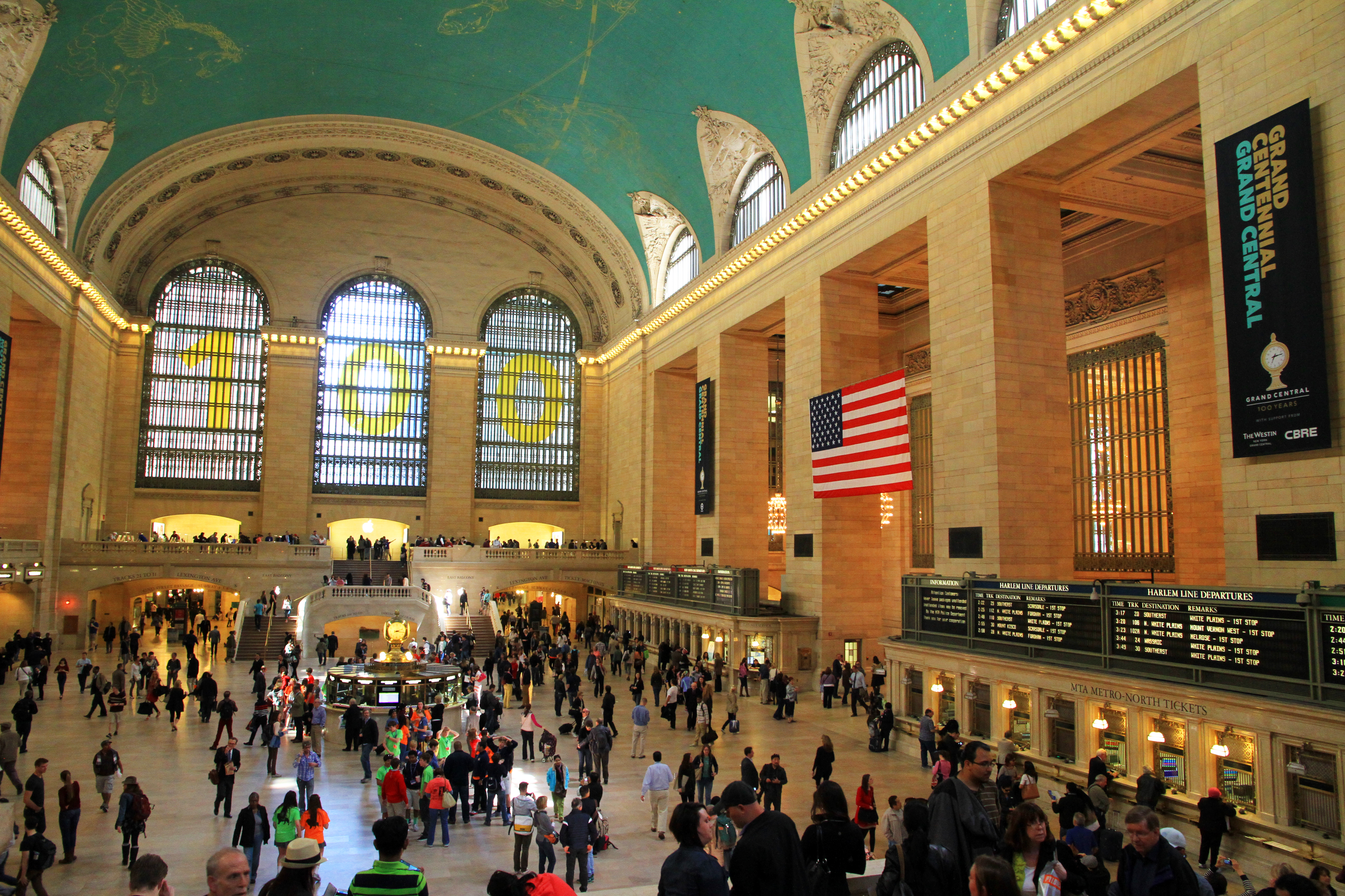 Grand Central Terminal Main Concourse